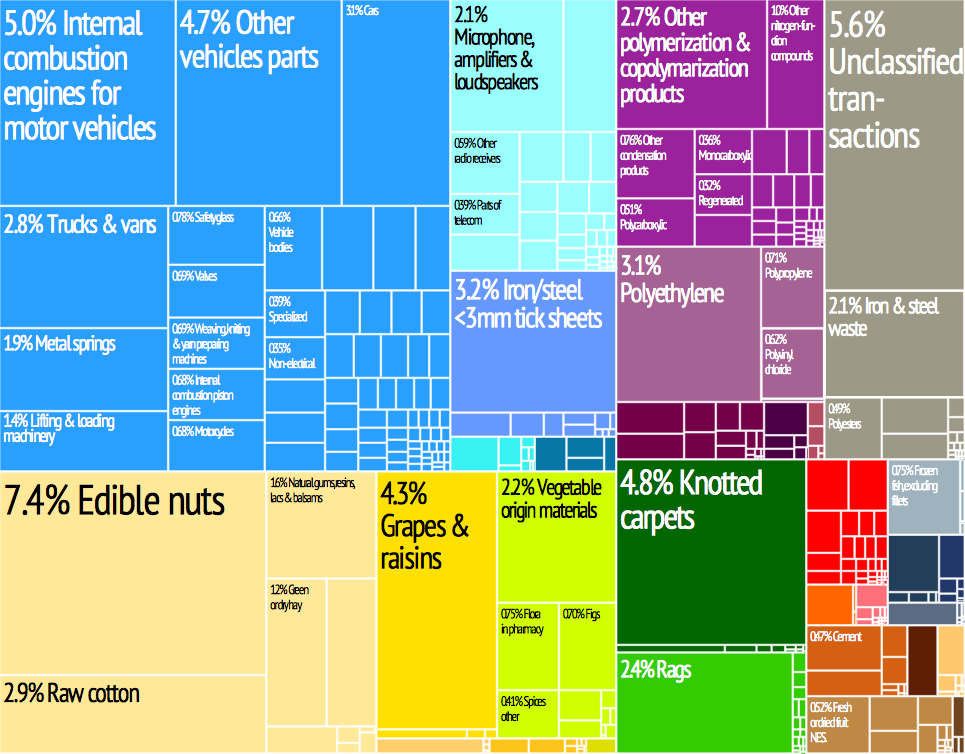 Export Trading Treemap. From MIT/Harvard Atlas of Economic Complexity